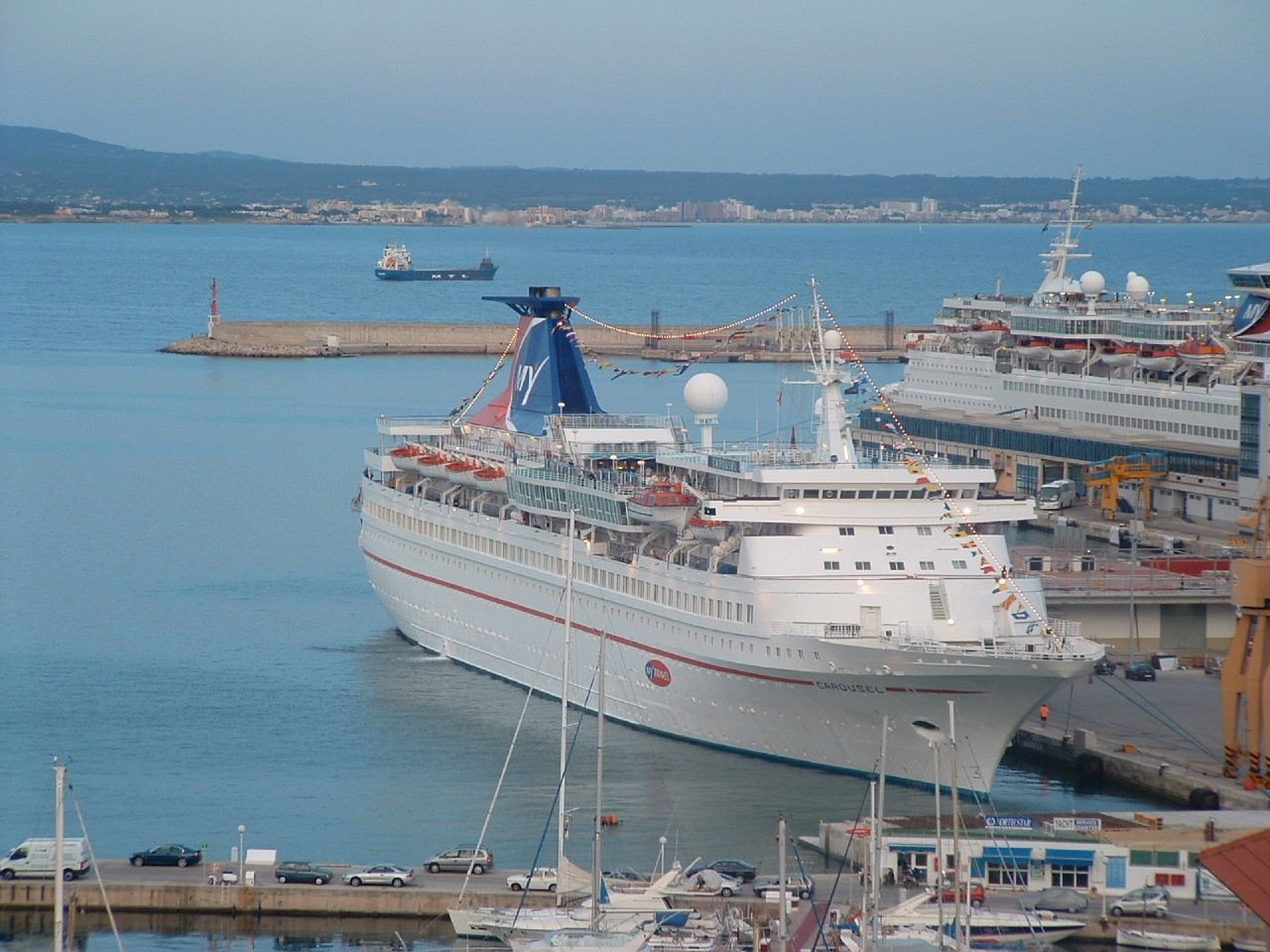 A photo of cruise ship Aquamarine as Carousel. Information about Carousel may be found at IMO 7027411. A ship can change name and flag state through time, but the IMO number remains the same through the hull's entire lifetime. As a result, it can be useful to identify a ship by using the IMO number.